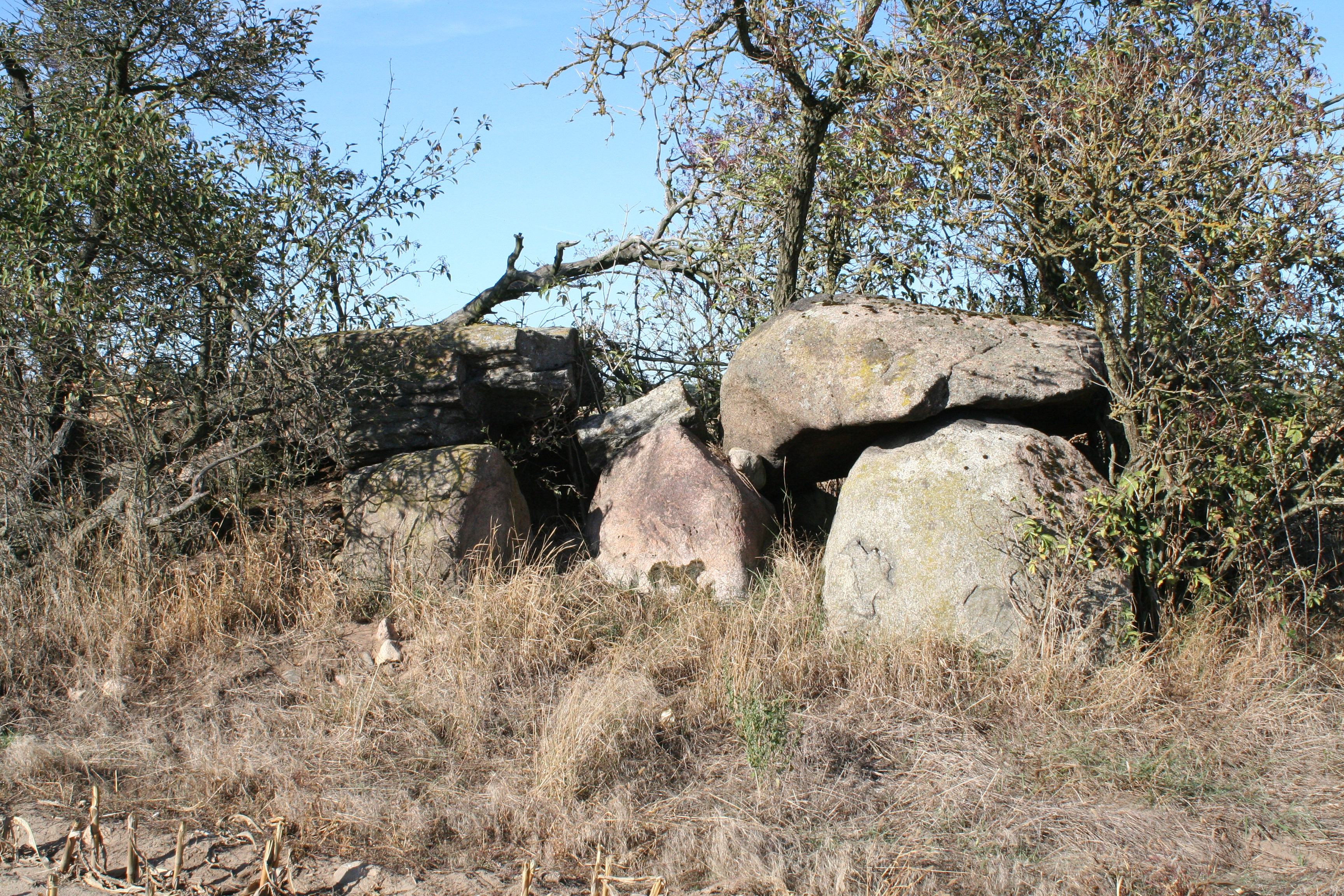 Megalithic tomb Schadewohl 2